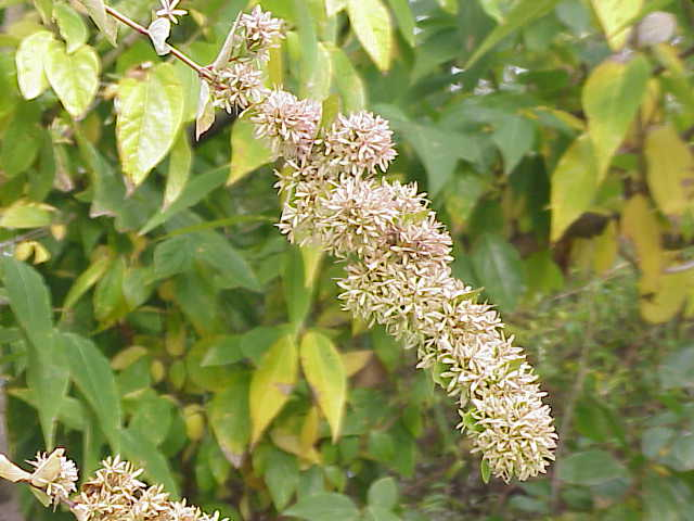 Species: Abelia chinensis Family: Caprifoliaceae Image No. 1